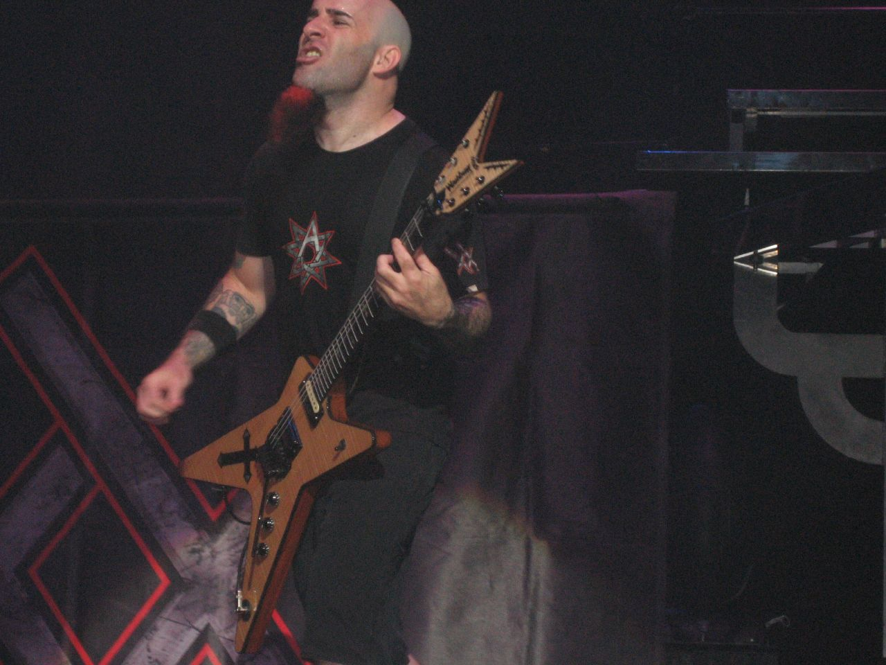 Judas Priest Retribution 2005 Tour (Scott Ian of Anthrax on guitar)